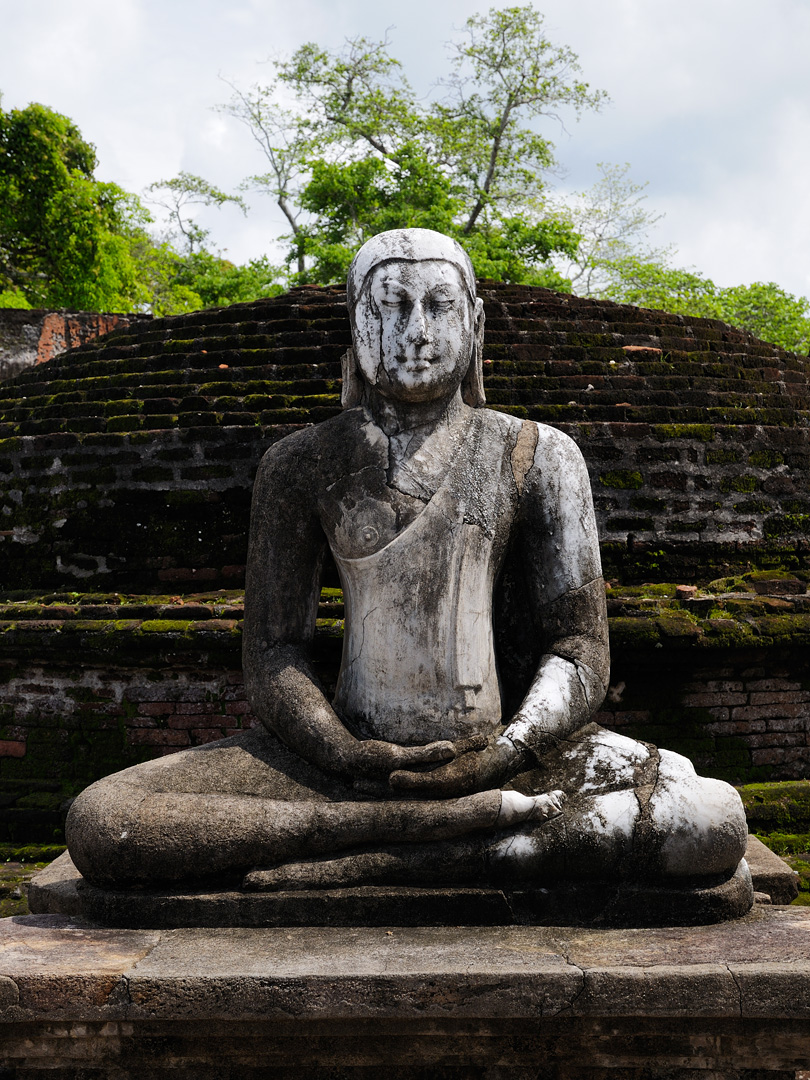 Buddhist statue in the former capital city of Polonnaruwa in Sri Lanka.